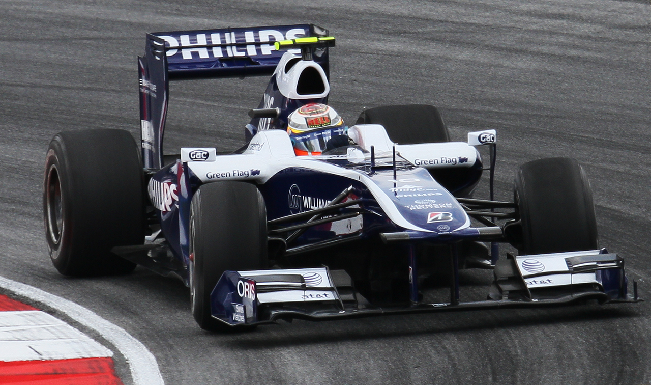 Formula One 2010 Rd.3 Malaysian GP: Nico Hülkenberg (Williams) during Saturday 3rd Free Practice session.